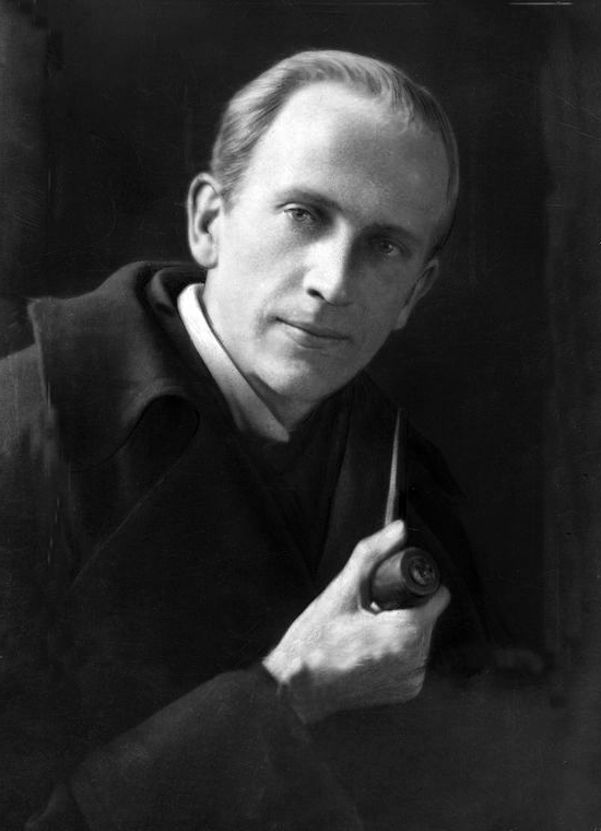 Photograph of A. A. Milne